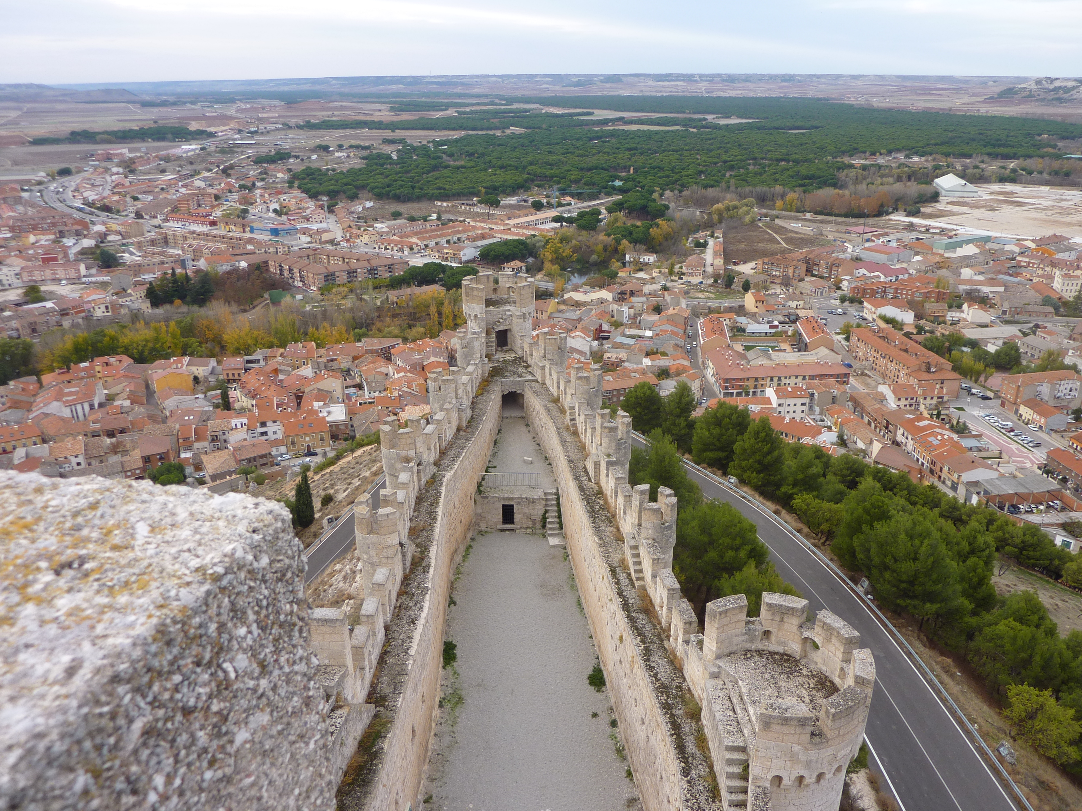 The old Castilian town of Peñafiel and the pinetree-lined Duero valley as seen from the a wing of the castle